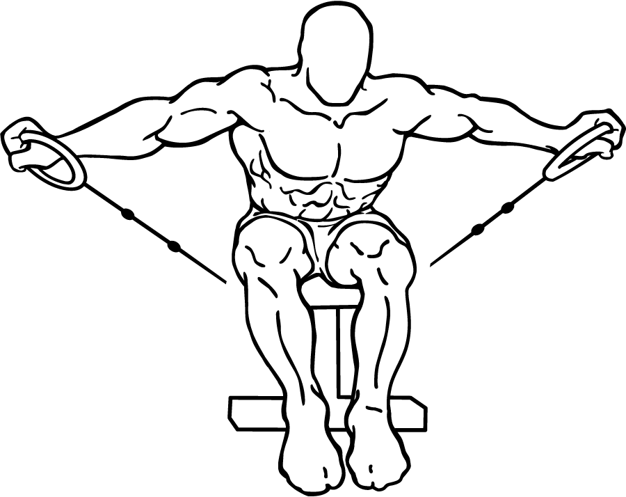 an exercise of shoulders